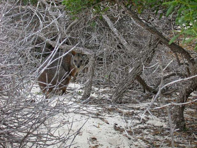 This is photograph of a Tammar Wallaby (Macropus eugenii) on North Island in the Houtman Abrolhos. Although native to the mainland and nearby islands, the Tammar Wallaby has only recently been introduced to North Island, and in the absence of any predators, has increased in population to the point where the islands's vegetation is being heavily overgrazed.